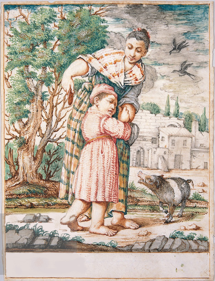 Cacasenno is quieted with a chestnut cakelabel QS:Len,"Cacasenno is quieted with a chestnut cake" label QS:Lit,"Scena campestre con Cacasenno che viene quietato con un castagnaccio"